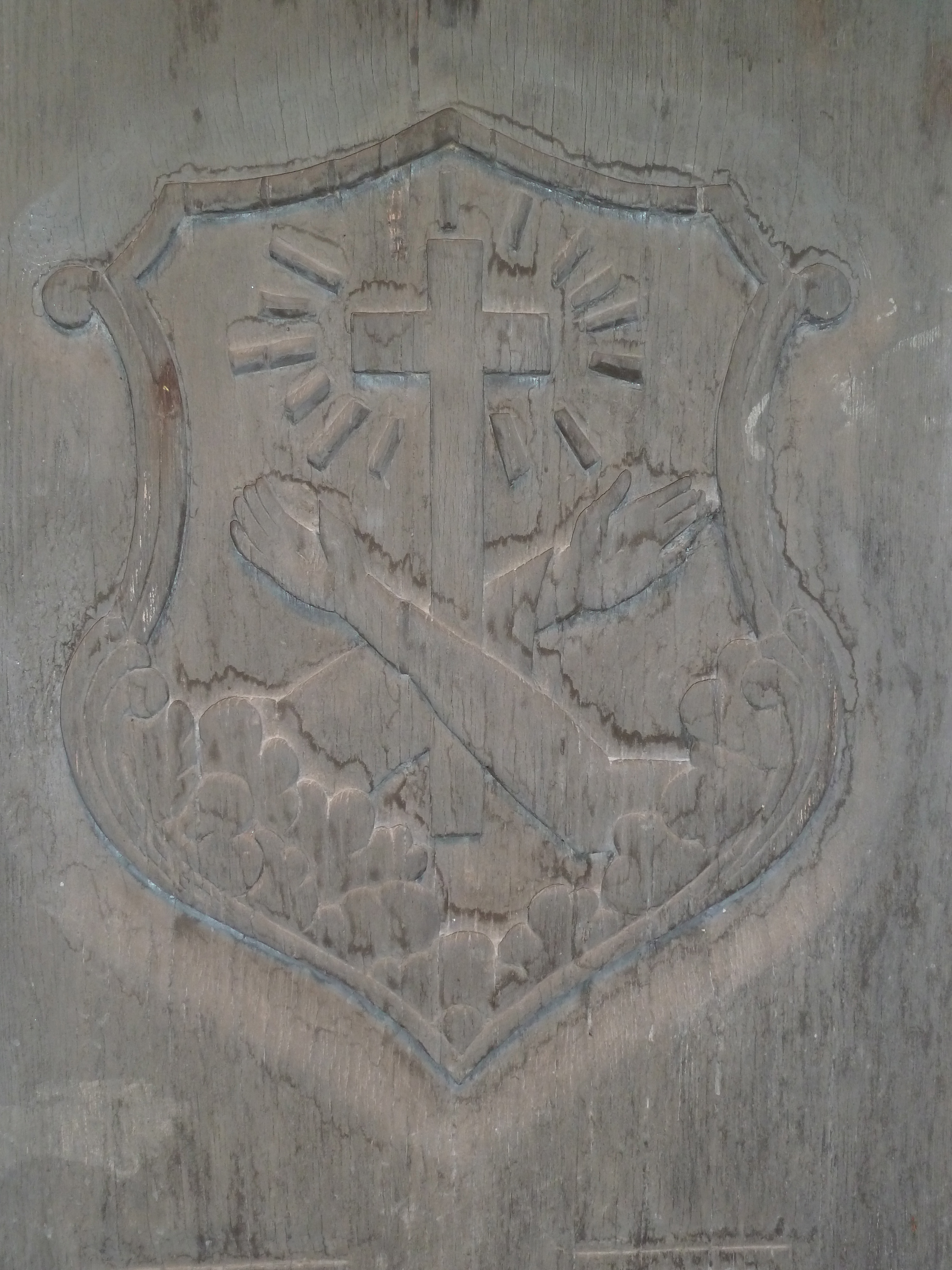 Franciscan Coat of Arms on a church door at the Indian Pueblo Cultural Center, Albuquerque, NM